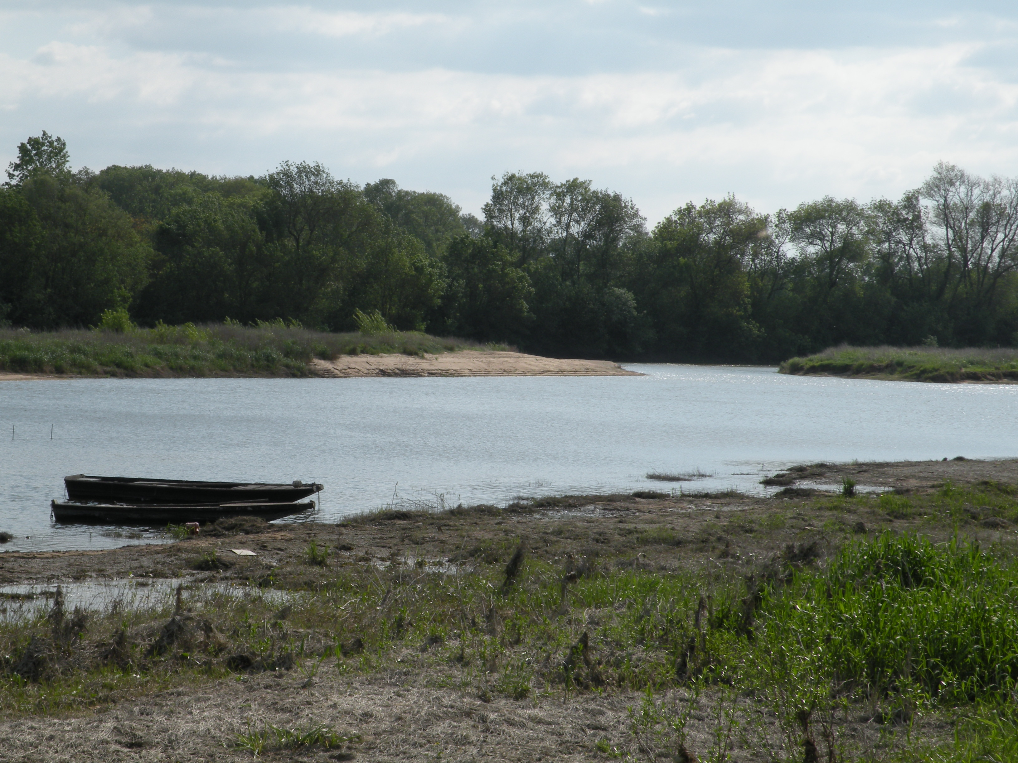 Loire's bank in Sainte-Gemmes-sur-Loire.